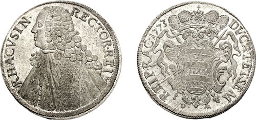 Dalmatia, Republic of Ragusa (nowdays Dubrovnik). 1358-1808. AR Tallero (28.50 g, 12h). Dated 1771; magistrate DM DM. RECTOR • REI RHACVSIN •, draped bust of the Rector left; D M at sides DVCAT • ET • SEM REIP • RAC • 1773, crowned coat-of-arms; D M below. Resetar 3045; Davenport 1639; KM 18.